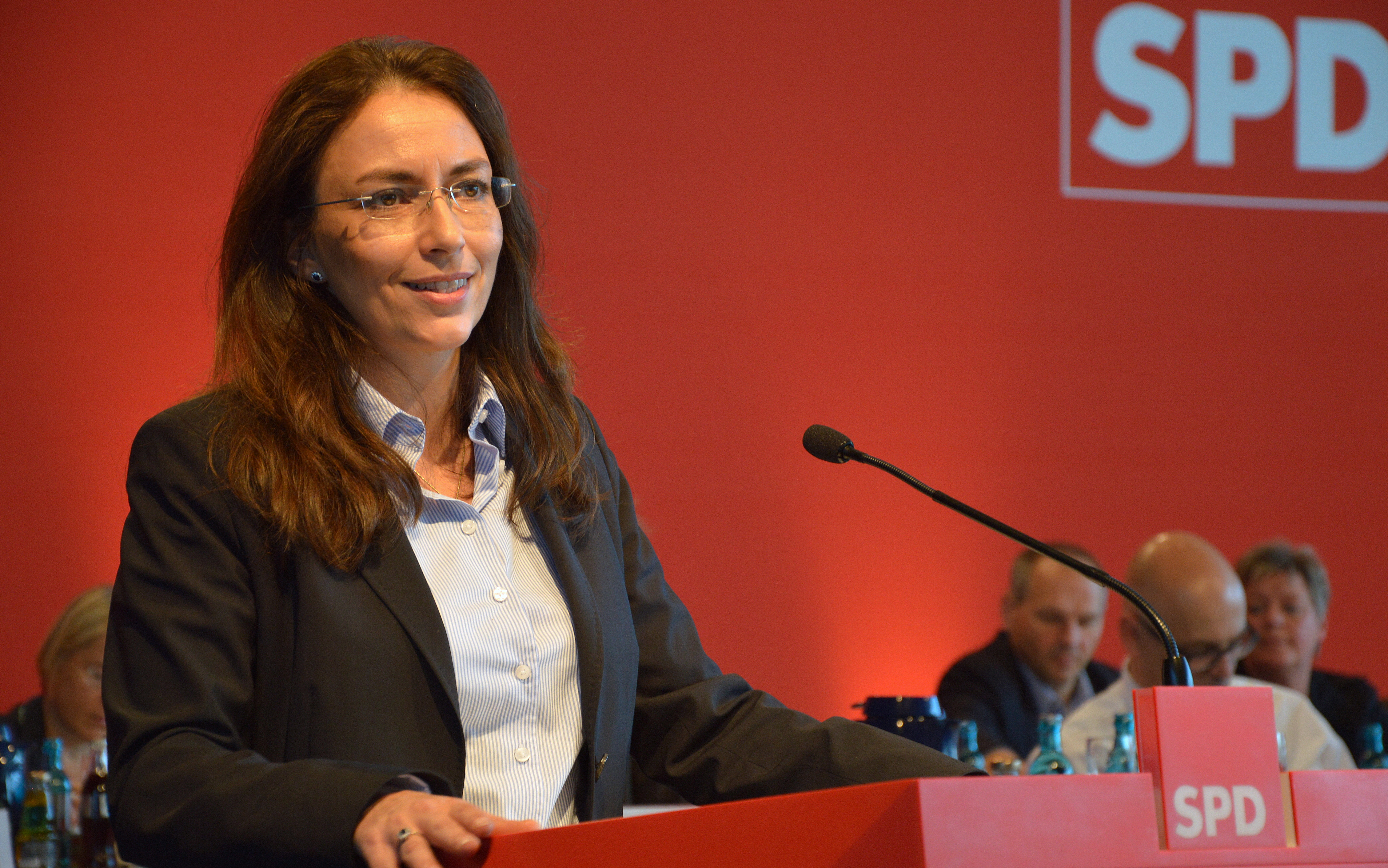 Yasmin Fahimi, secretary general of the SPD